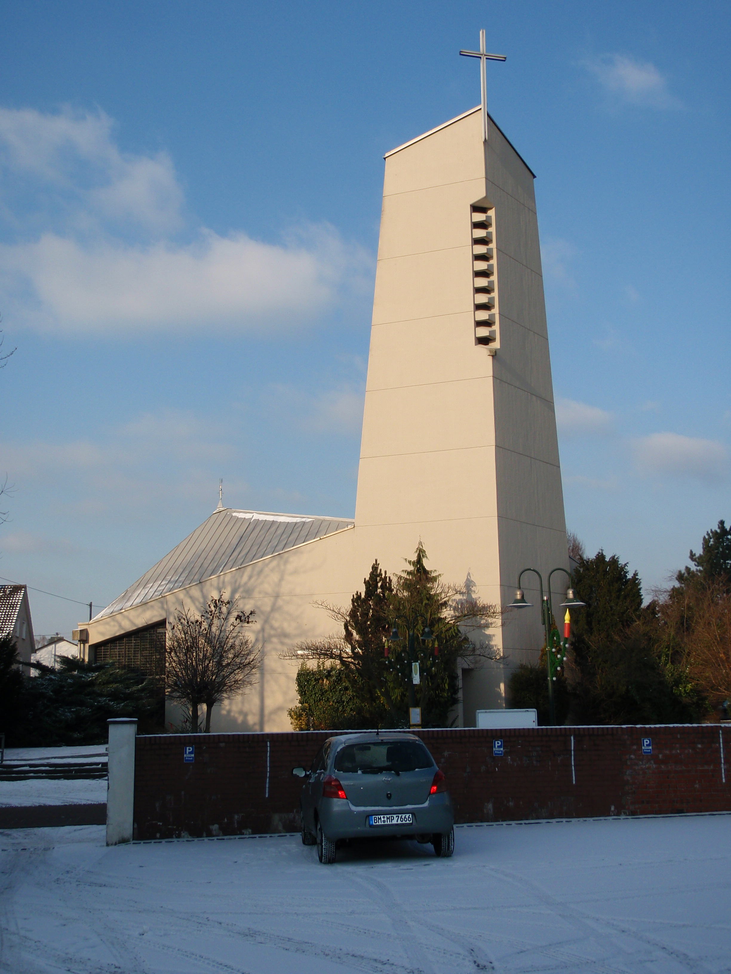 Catholic church St. Anna in Sankt Augustin-Hangelar, Germany.